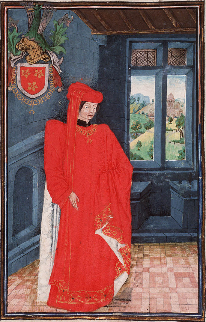 Statuts, Ordonnances et Armorial de l'Ordre de la Toison d'Or (Statutes, Ordonnances and armorial of the Order of the Golden Fleece) Place of origin, date: Southern Netherlands; 1473. Added sections: Southern Netherlands; 1478 or shortly after and 1491 or shortly after Material: Vellum, ff. 86, 249x187 (167x106) mm, 23 lines, littera cursiva (lettre bourguignonne). French. Binding: 18th-century brown leather Decoration: 1 full-page miniature (170x115 mm) with border decoration; 92 miniatures (185/155x120/100 mm); 1 historiated initial (80x90 mm) with border decoration; decorated initials with border decoration (ff., Added section: miniatures ; 4 drawings for miniatures (not finished) Provenance: Presented in 1473 by Gilles Gobet, King of Arms of the Order of the Golden Fleece, to Charles the Bold, Duke of Burgundy and the other Knights during the Chapter of the Order held at Valenciennes; Treasure of the Golden Fleece, Brussls; taken away by the Treasurer C.-F. Humyn (d. 1735) or his daughter C.Ch. de Corte; by legacy to her daughter M.-L. de Corte, wife of Ph.-E. de Poederlé; purchased in 1781 at the Poederlé sale by G.-J- Gérard of Brussels; acquired in 1832 as part of the Gérard collection (no. A 27)